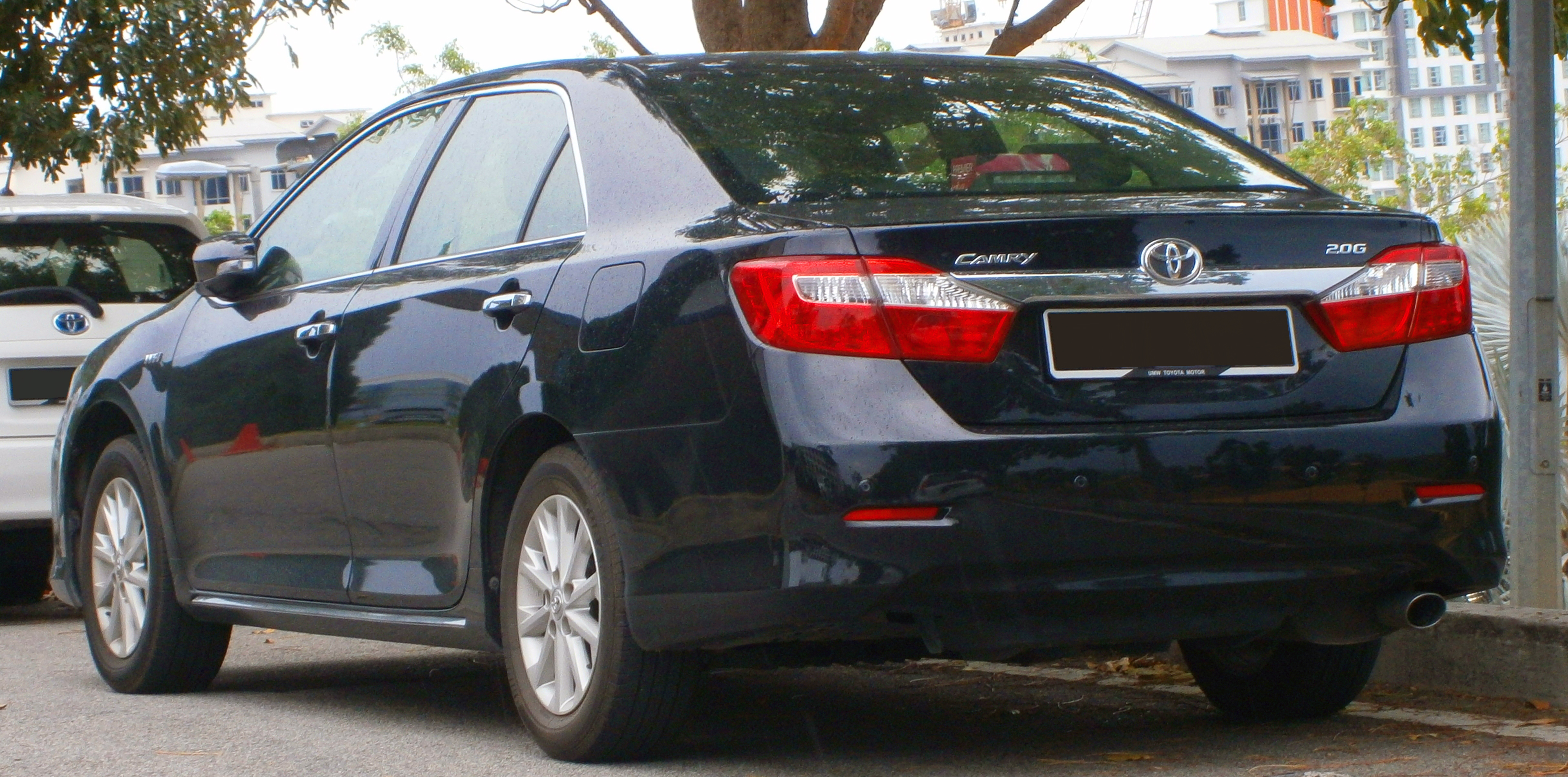 2012 Toyota Camry 2.0G in Cyberjaya, Malaysia. Colour : Attitude Black Designed in Japan , Assembled in Malaysia